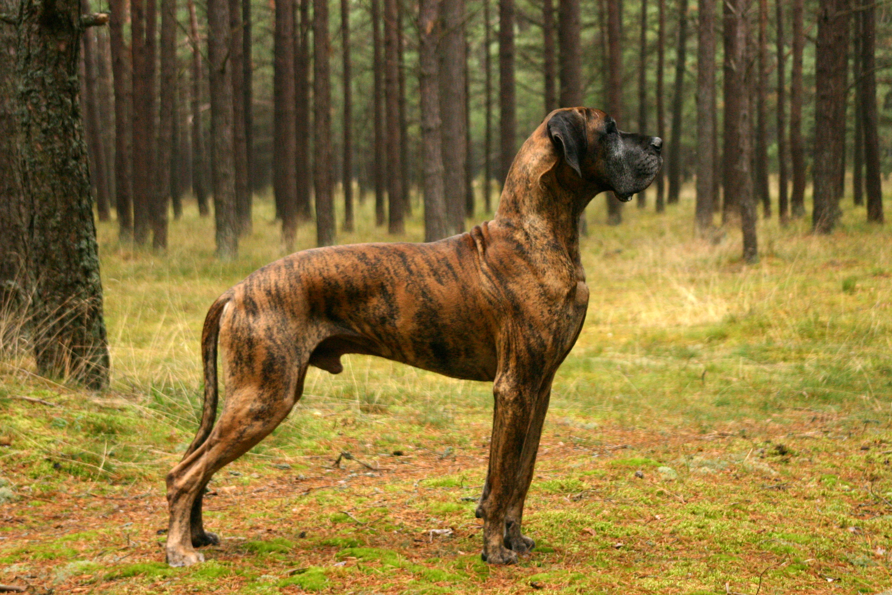 Medium weight brindle Great Dane